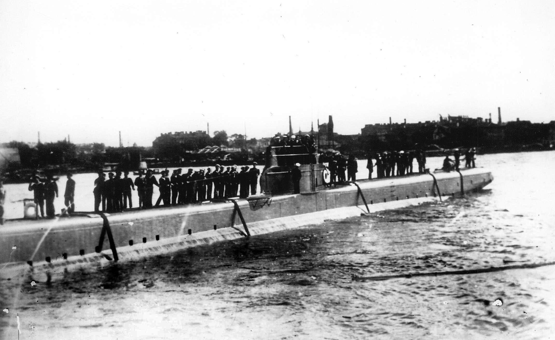 Launching of the Russian mine laying submarine «Yorsh» at the «Noblessner» Yd, Reval.